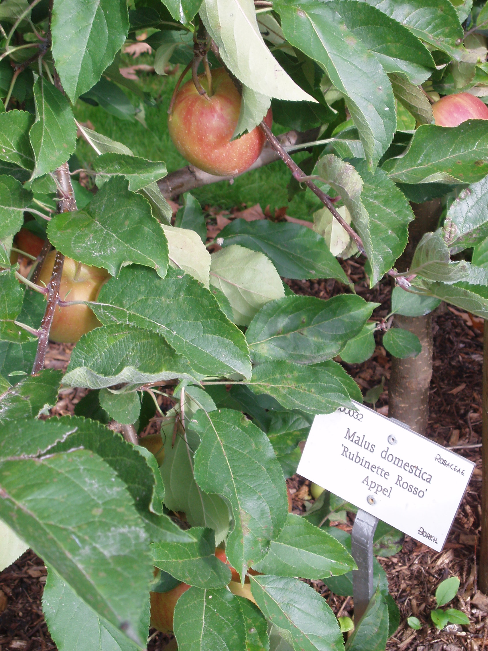 Rubinette rosso apple